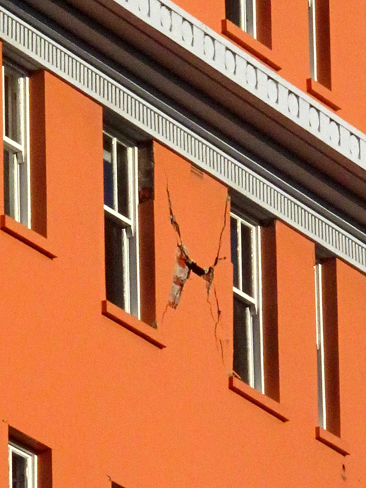 (Wed 2-March-2011) St Elmo Courts on Hereford Street was further damaged by the Tuesday 22 February 2011 magnitude 6.3 earthquake that ripped through Christchurch.